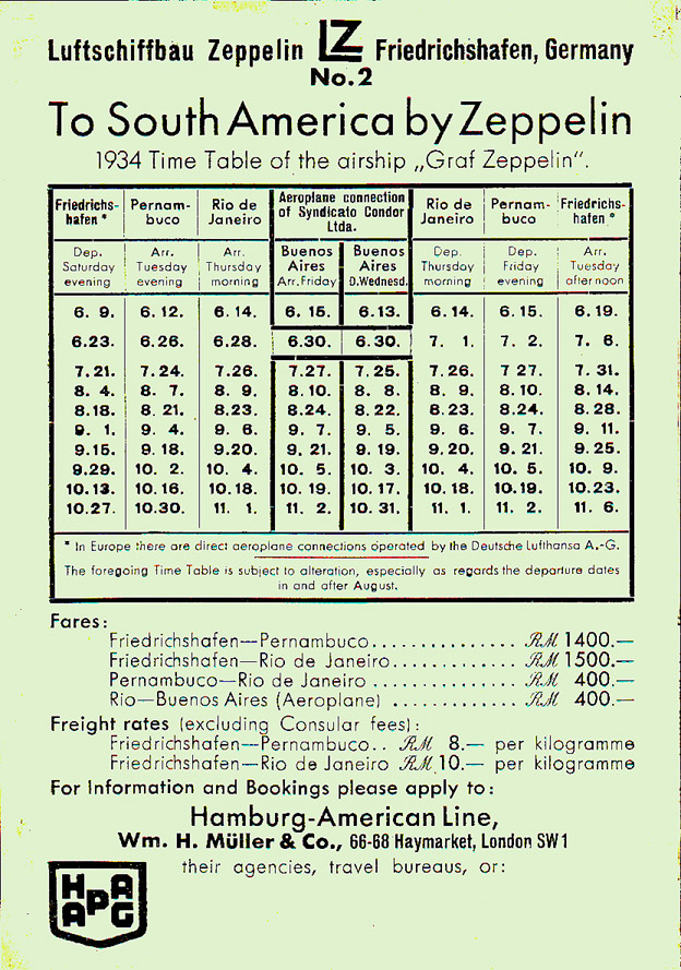 Schedule of flights to South America by the "Graf Zeppelin" in 1934 Source: The Cooper Collection of Zeppelin Postal History Photograph by uploader.